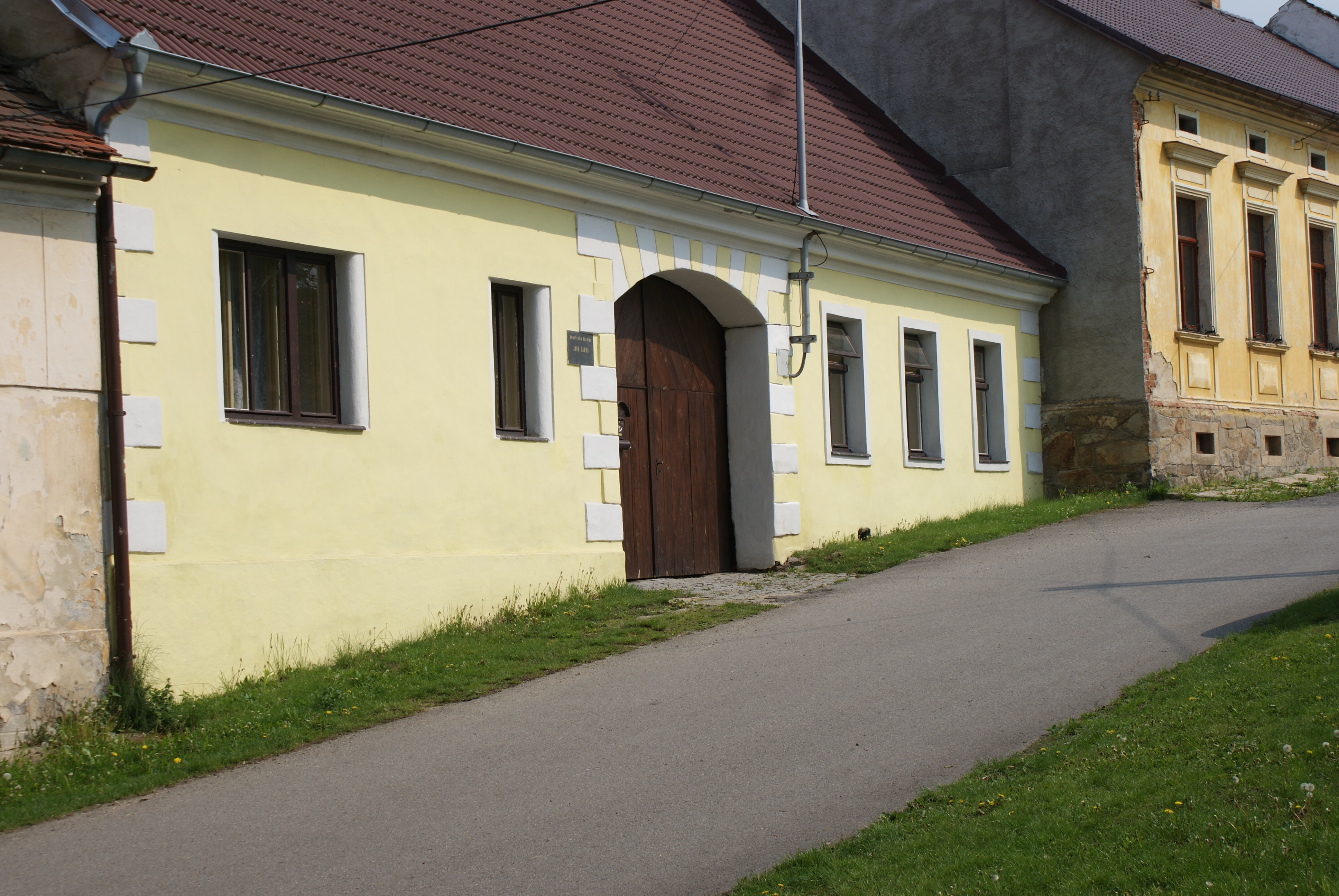 Heřmaň village in Písek district, Czech Republic. The natal house of the Czech poet Jan Čarek.